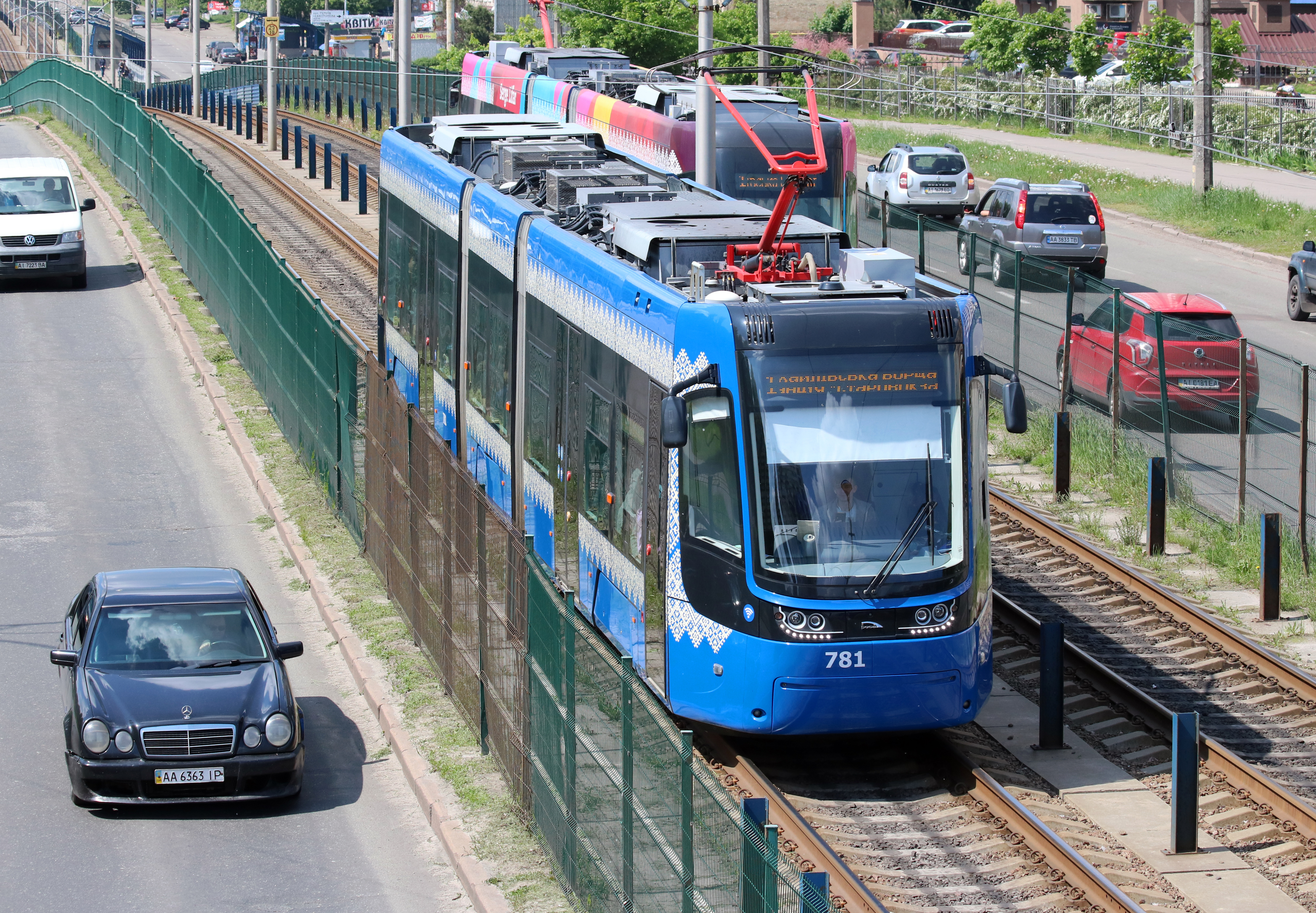 Kyiv Express Tram Pesa Fokstrot 71-414K #781. Pravoberezhna Line